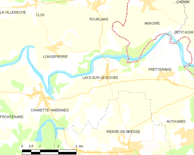 Map of French municipality